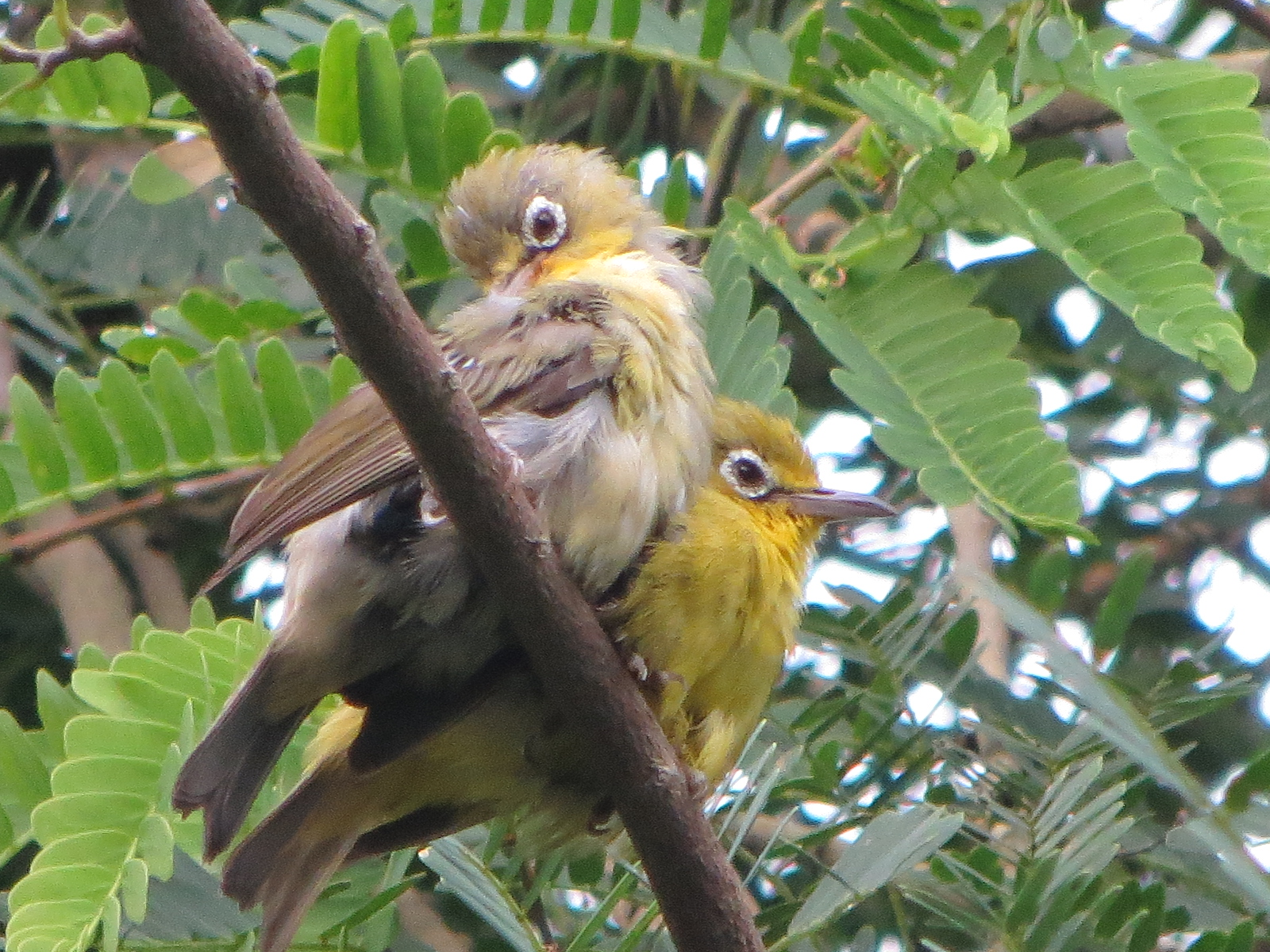 The Sulawesi white-eye has been introduced into the rainforest biome of the Eden Project, Cornwall in ord er to help keep on top of insects in the biome.